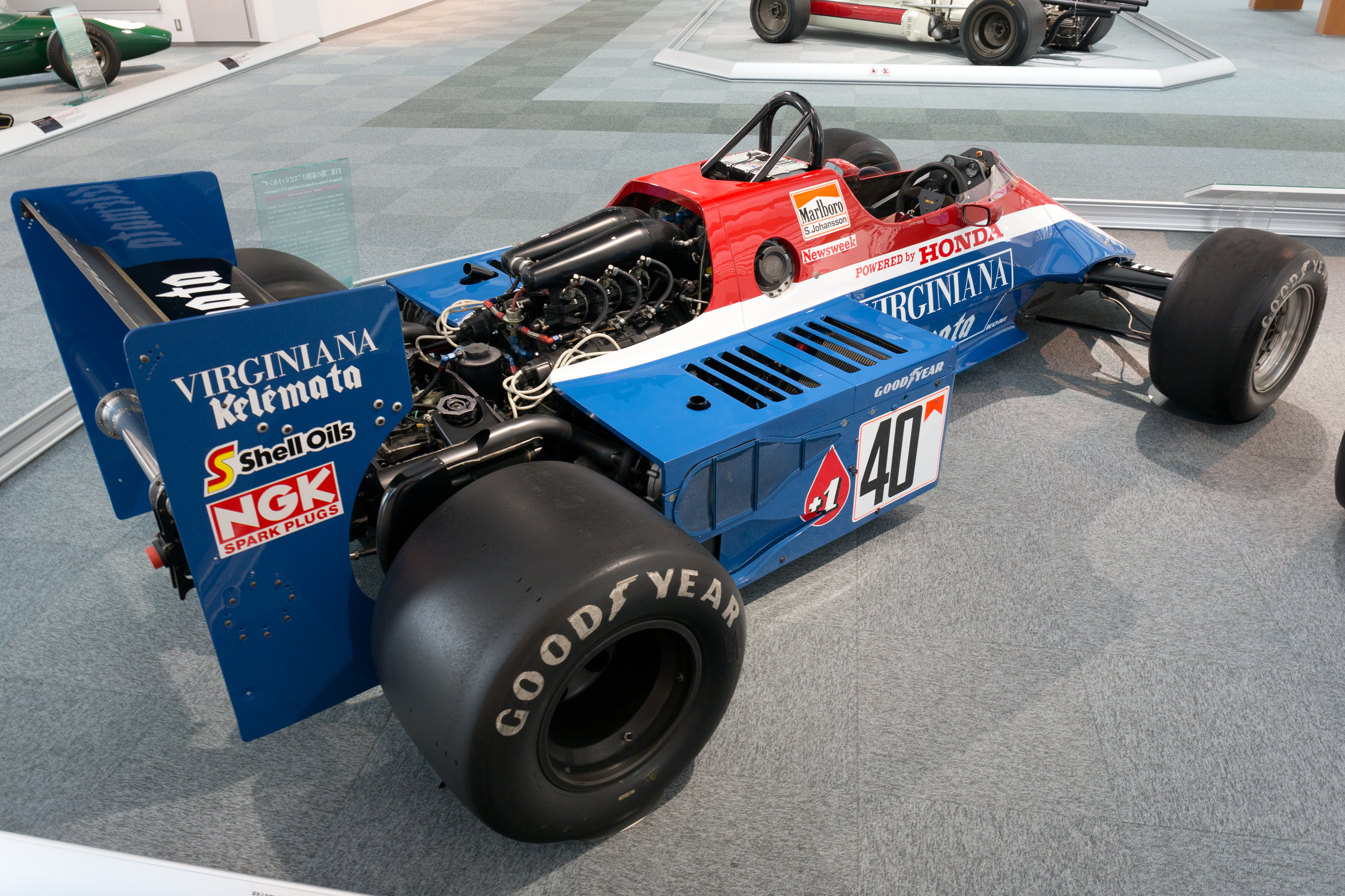 1983 Spirit 201C